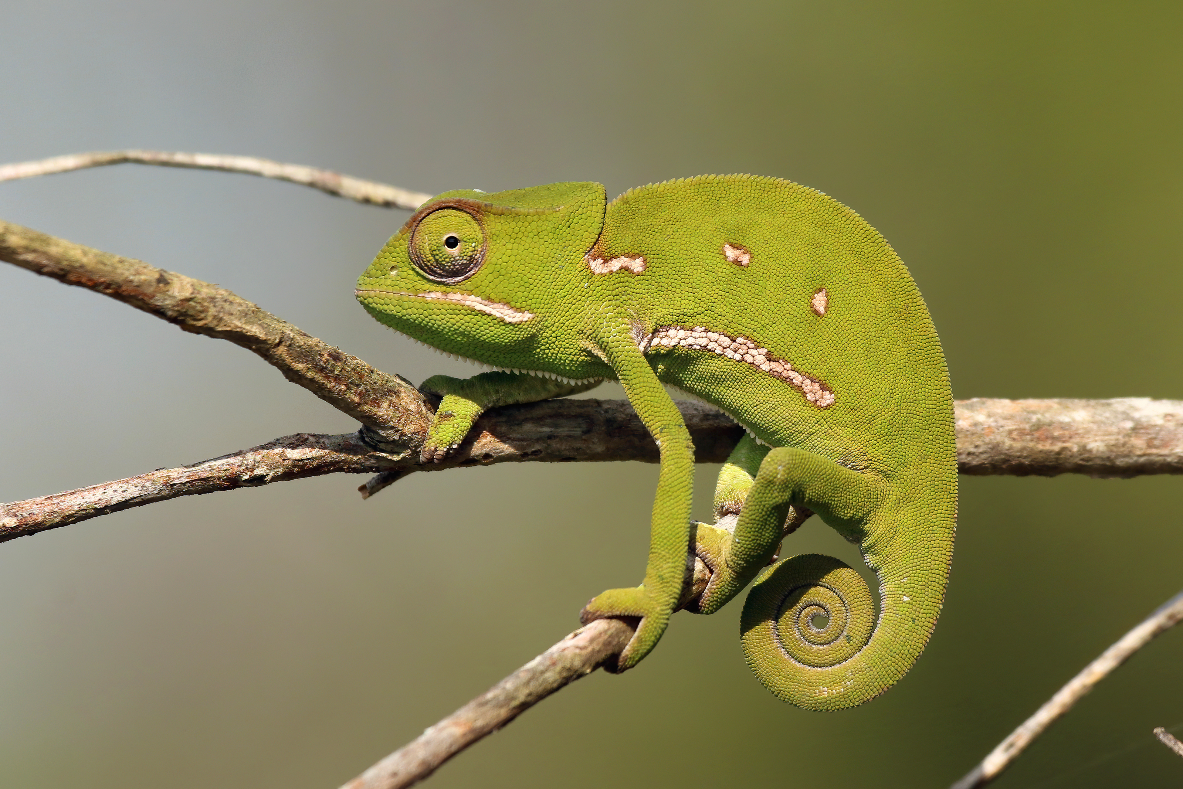 Flap-necked chameleon (Chamaeleo dilepis delepis) female, iSimangaliso Wetland Park, KwaZulu Natal, South Africa